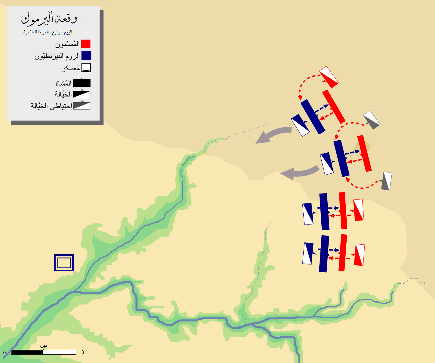 Battle_of_Yarmouk-day-4_phase-2